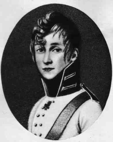 Colonel, the father of the famous writer Ivan Turgenev, Sergey Nikolaevich Turgenev.